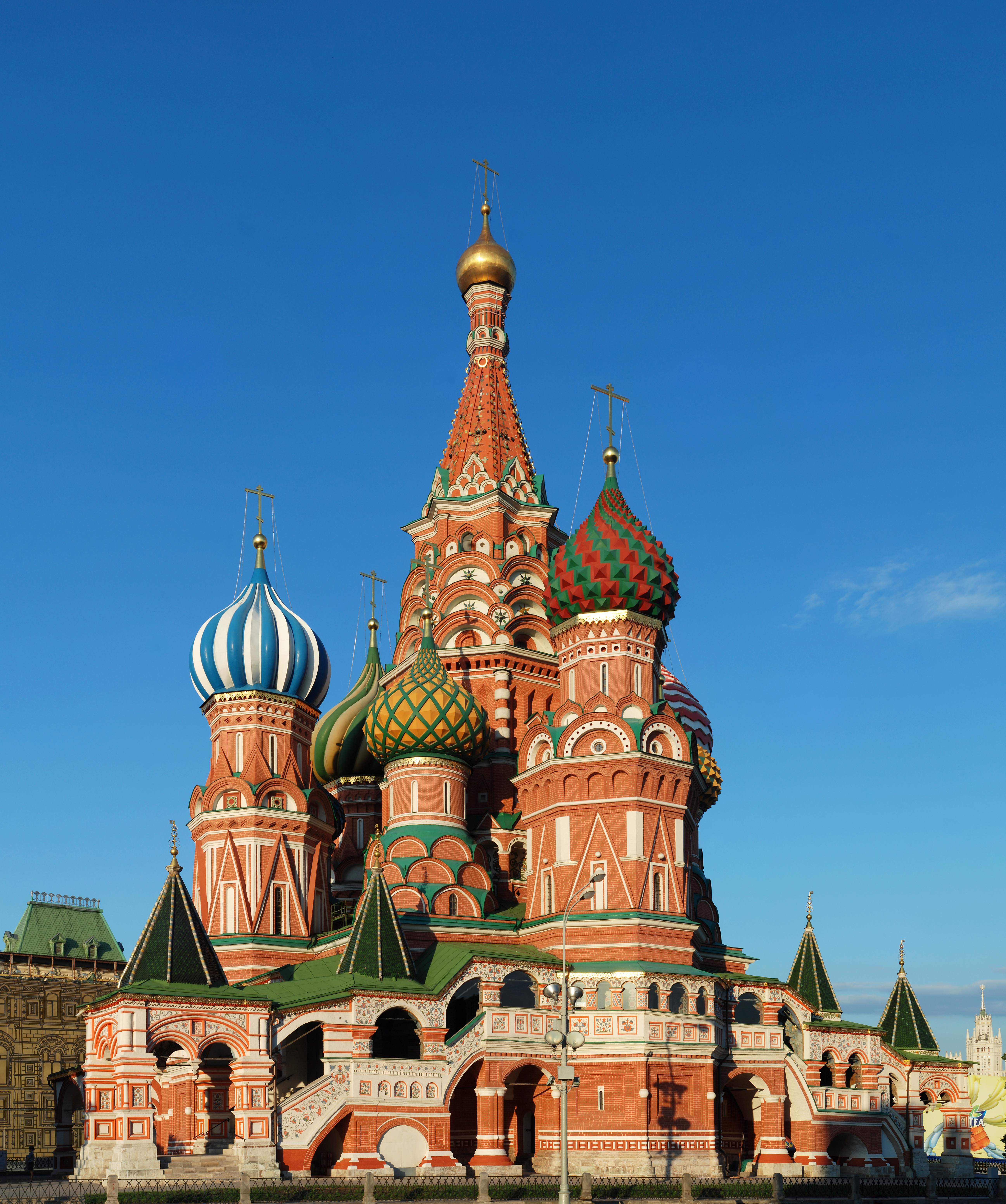 Saint Basil's Cathedral (Cathedral of the Protection of Most Holy Theotokos on the Moat) on Red Square in Moscow (Russia).